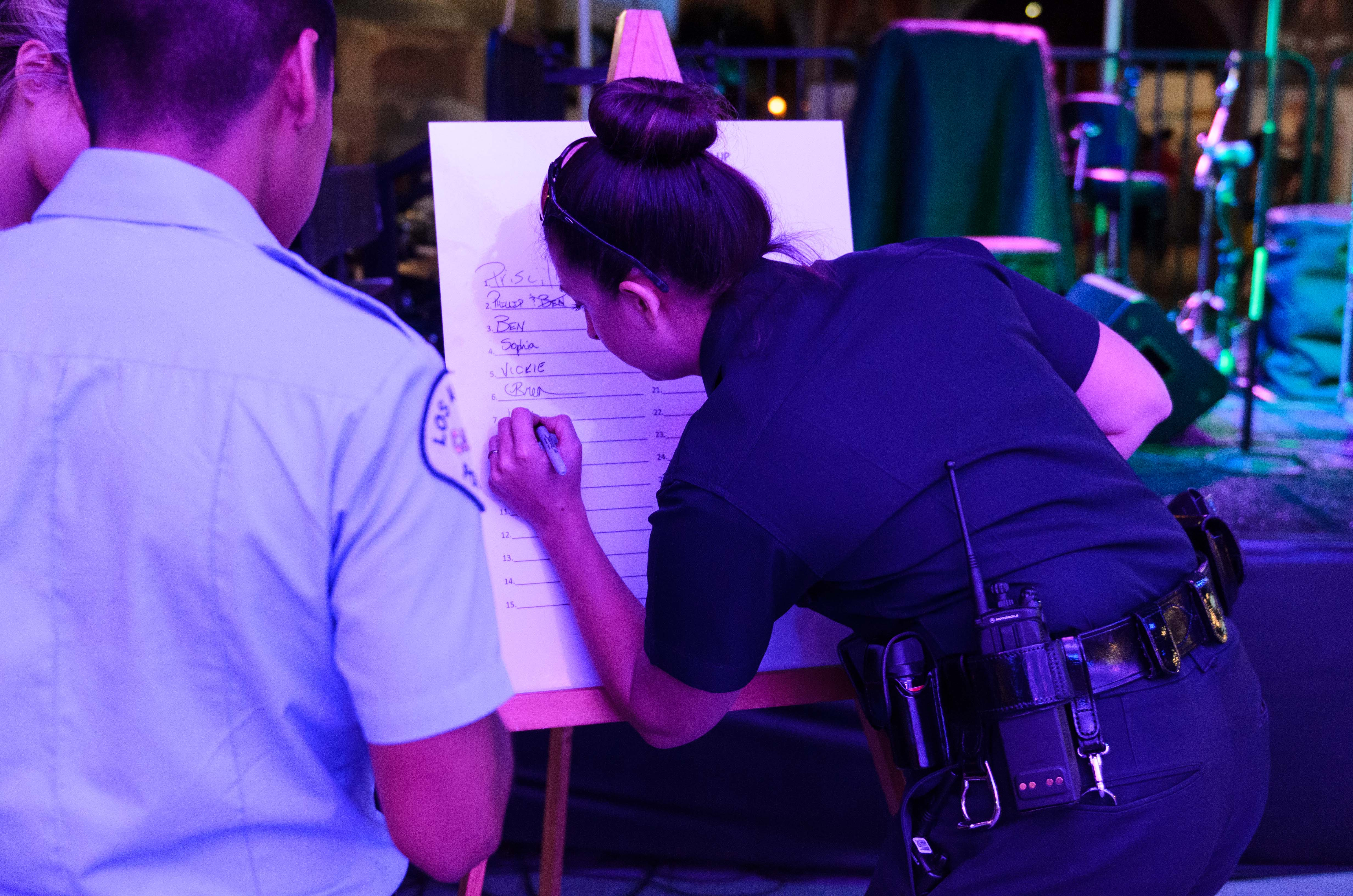 LAPD Signing up the Cadets at a Greek Fest